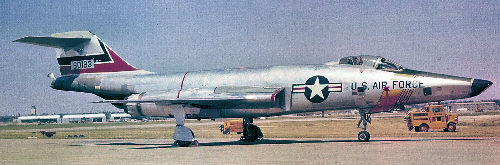 20th Tactical Reconnaissance Squadron - McDonnell RF-101C-45-MC Voodoo 56=-0183, about 1960 at Shaw AFB, SC